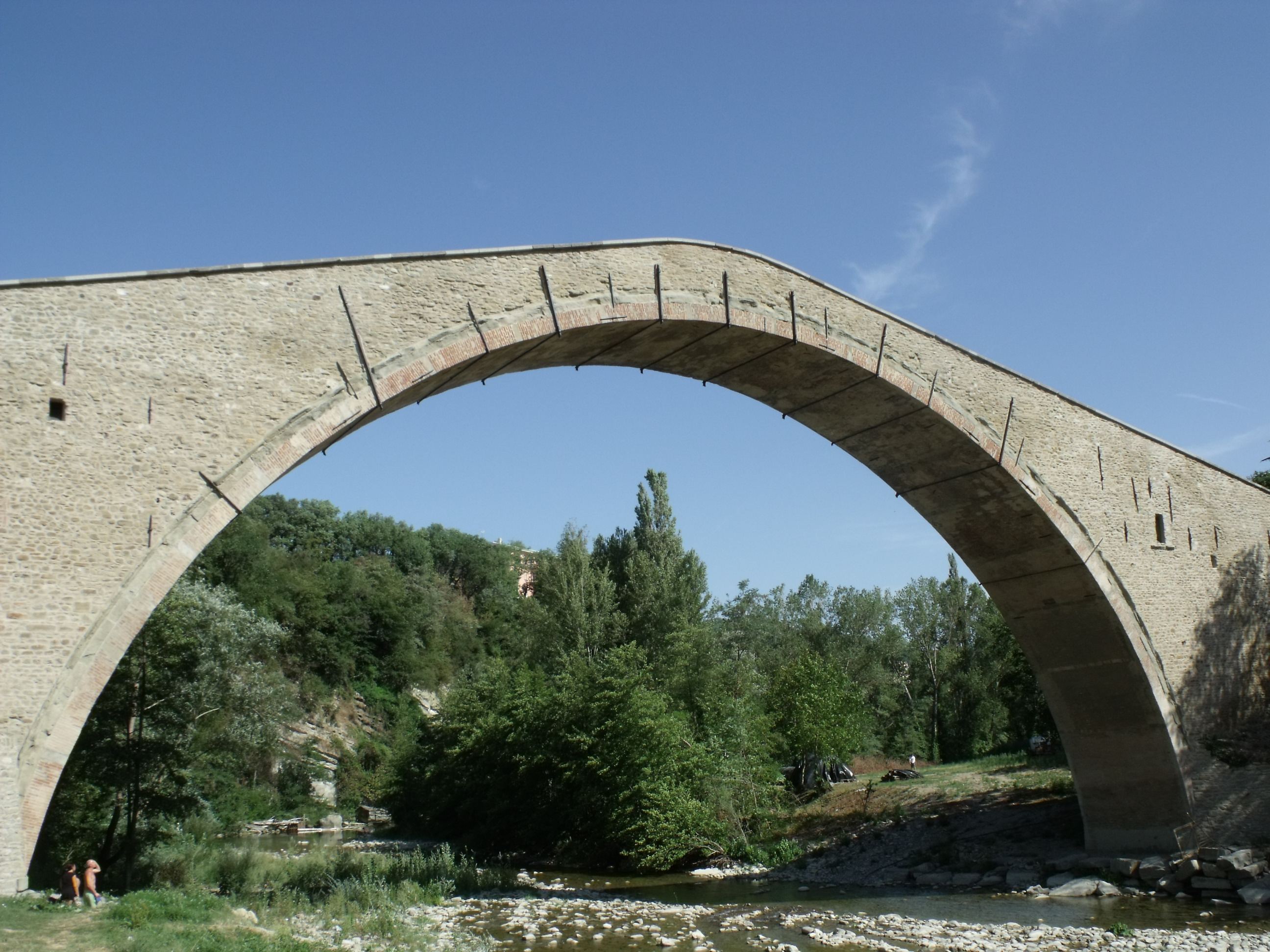 The Santerno River and the Bridge Ponte Alidosi in Castel del Rio, Province of Bologna, Emilia-Romagna, Italy